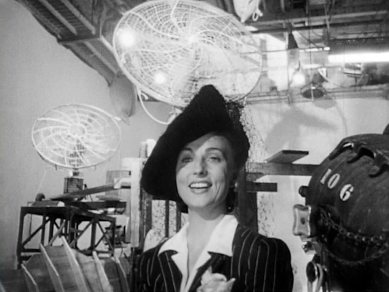 Screenshot of Agnes Moorehead from the Citizen Kane trailer